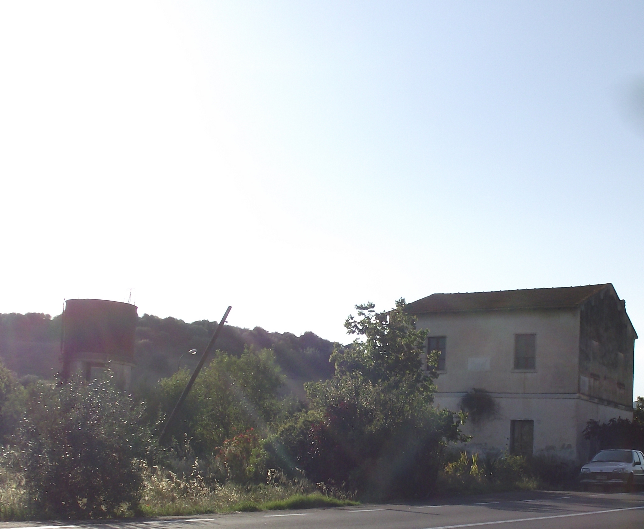 The water tank and the former signalman's house of the railway station of Terrubia, in Narcao, Sardinia, Italy, closed in 1968 and built along the dismissed Siliqua-San Giovanni Suergiu-Calasetta railway